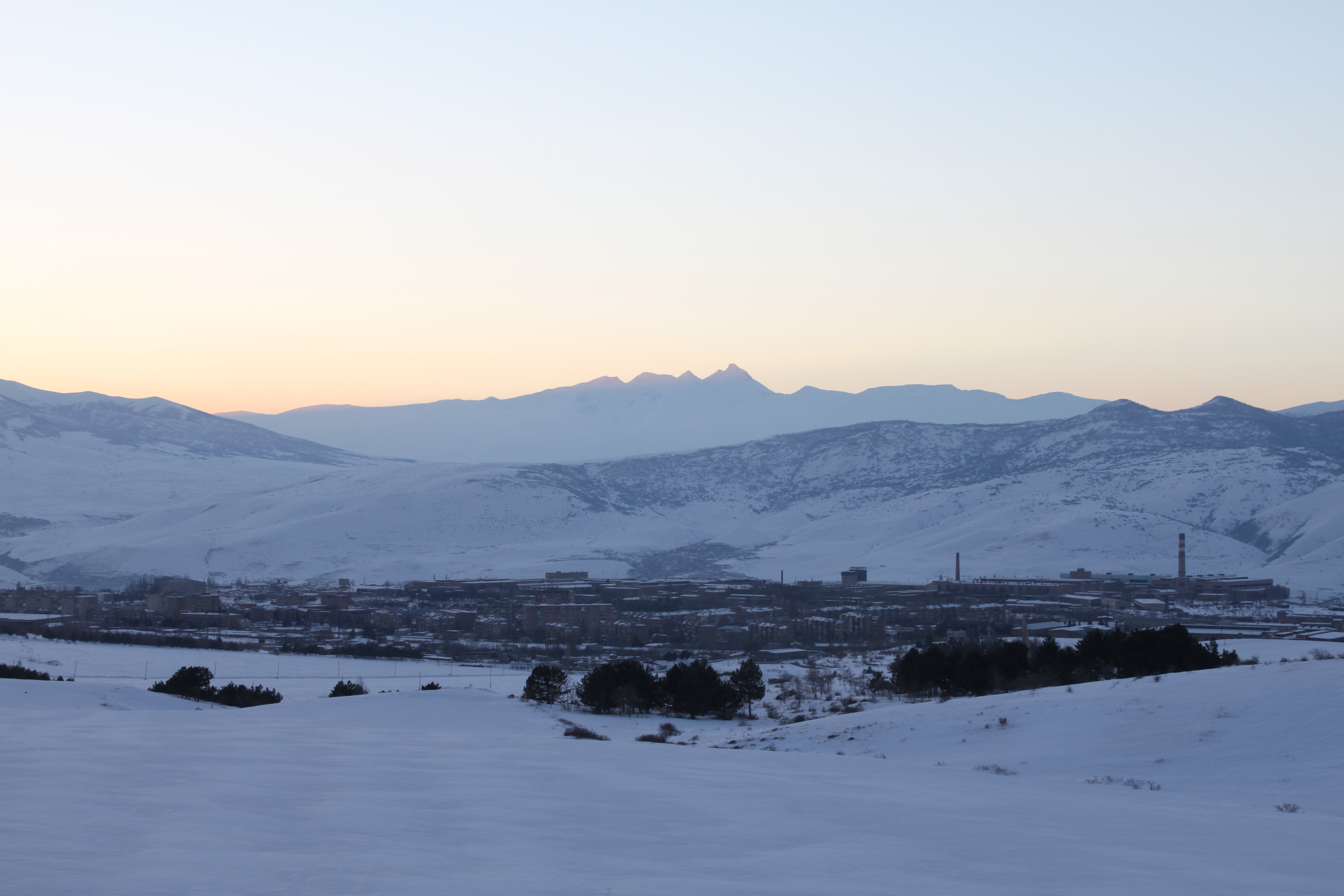 The city of Charentsavan with the backdrop of Mount Aragats in central Armenia. Viewed from the main Yerevan-Sevan highway.